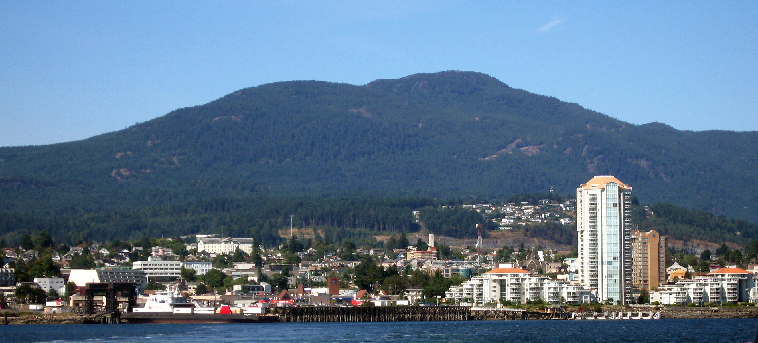 Nanaimo, British Columbia - Skyline